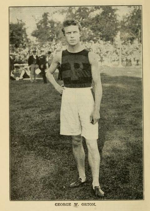 A photo of George Orton wearing a Penn uniform.